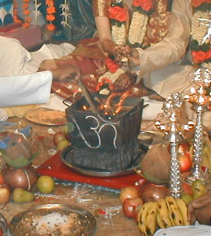 Throwing offerings on the fire, lit in a box with "Aum" written on it, during a Hindu wedding.